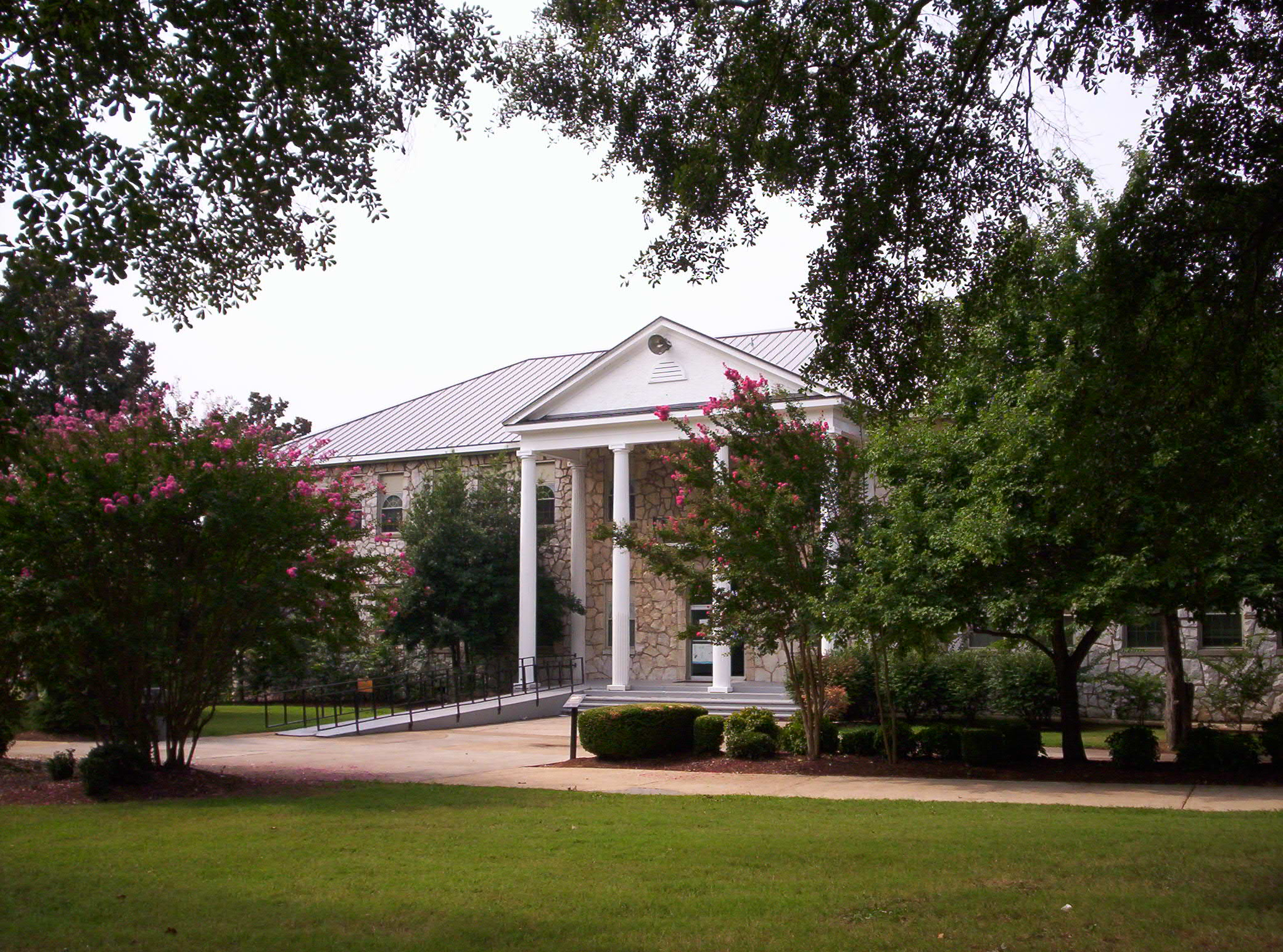 Moran Hall at Oakwood College.